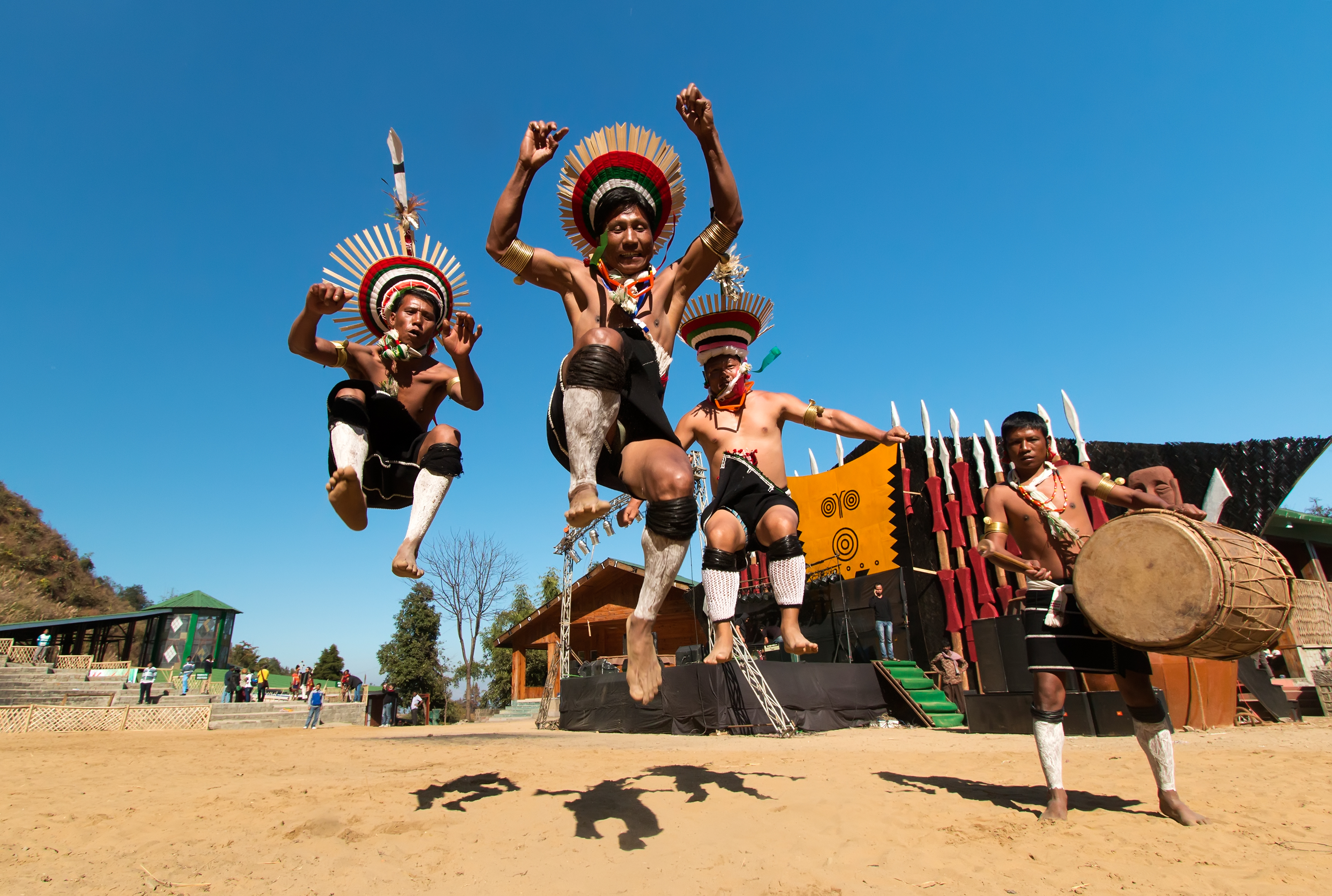 Zeliang Naga Tribesmen of Nagaland, India rehearsing their traditional dance during Hornbill Festival on 10th Dec 2014.